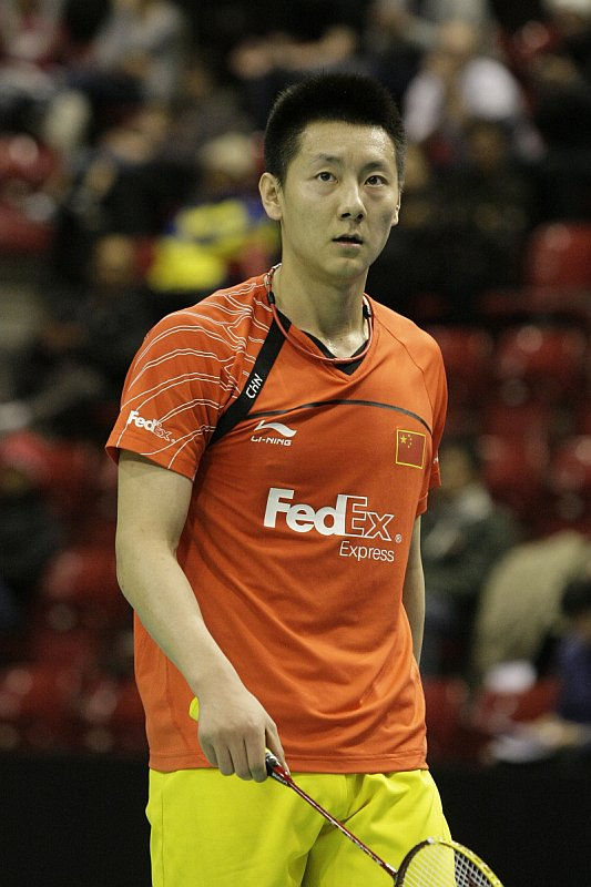 Chen Jin, Wilson Swiss Open 2010